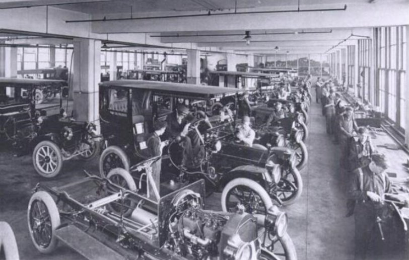 Packard factory number 10 interior 1906